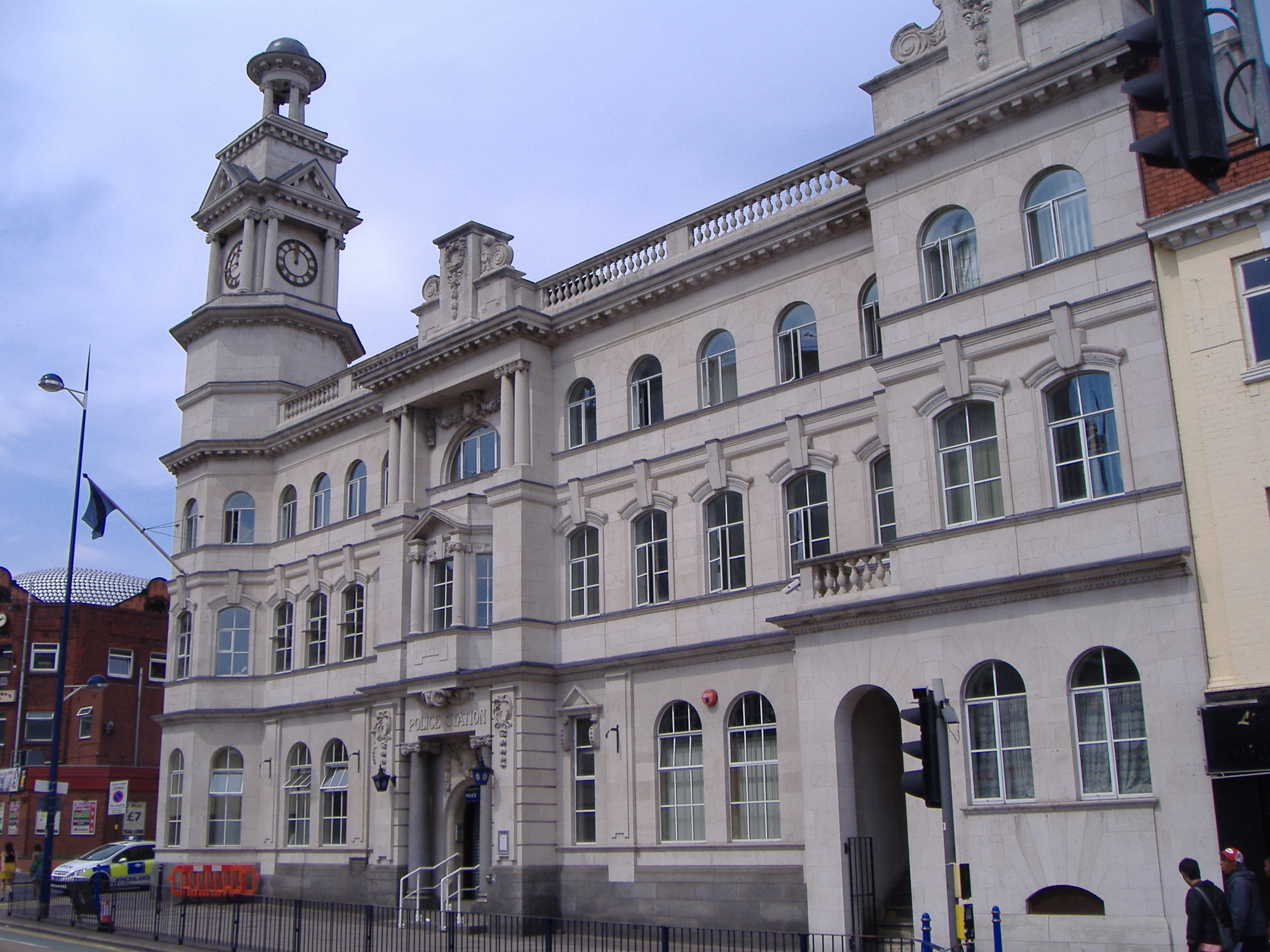 This is Digbeth Police Station in Digbeth, Birmingham c.July 2006.